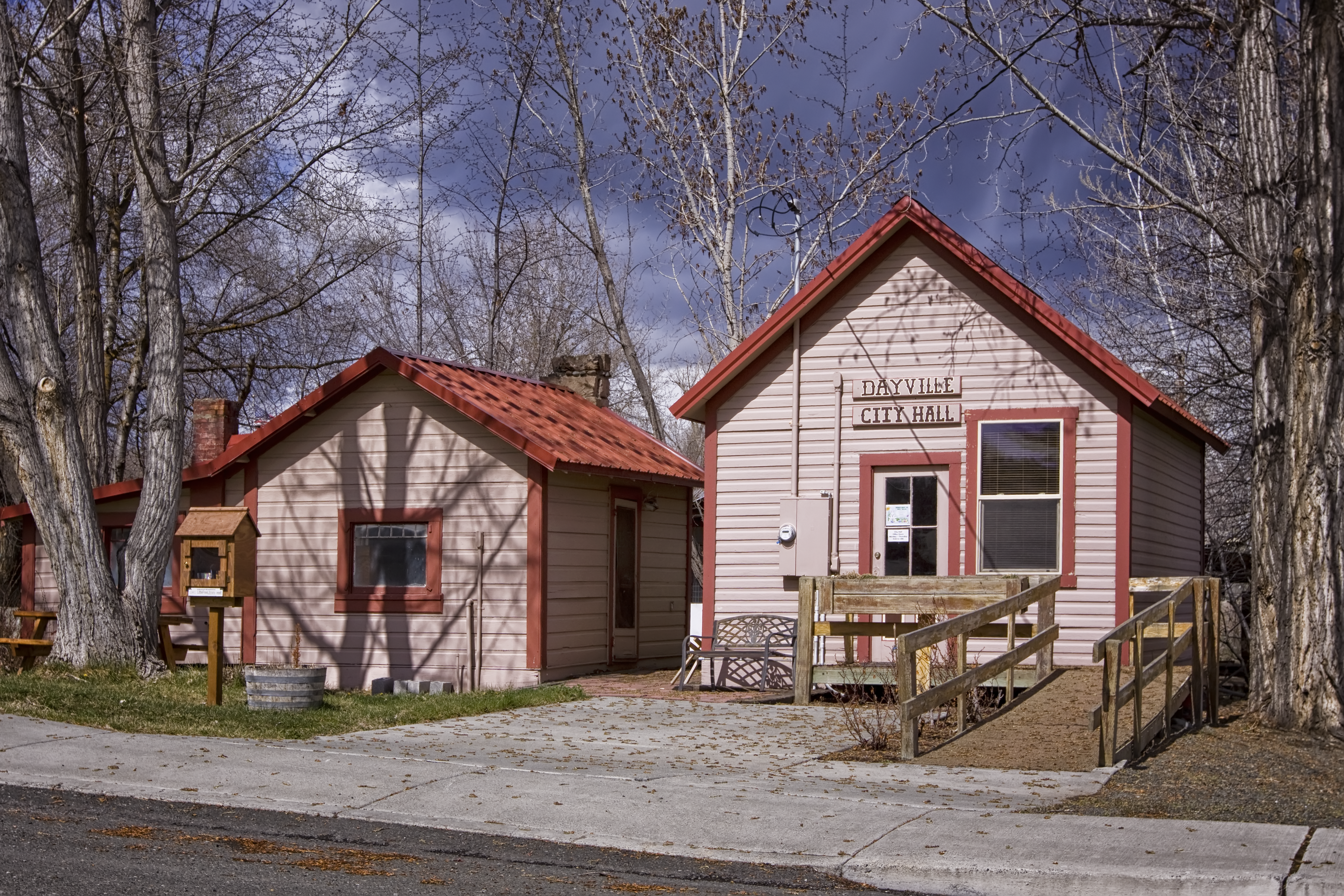 Dayville, Oregon — Dayville City Hall